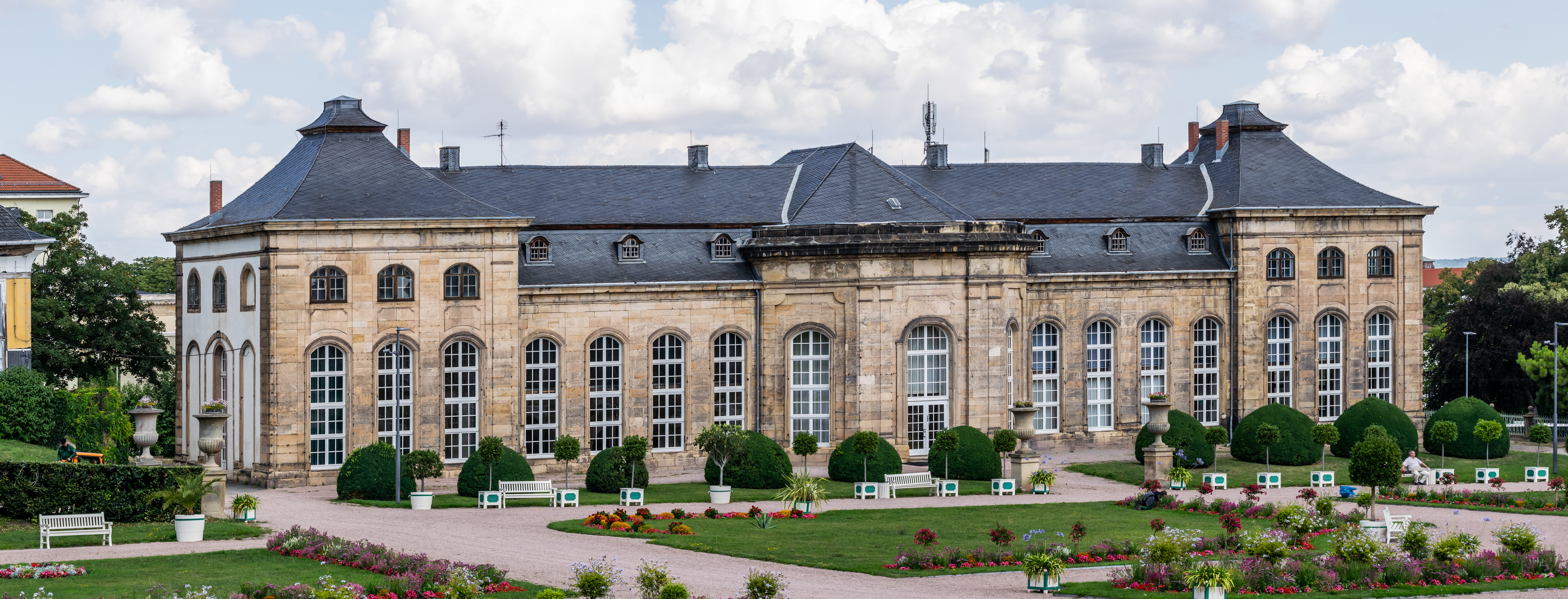 Orangery in Gotha, Thuringia, Germany